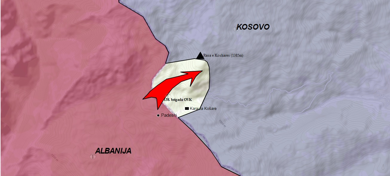 Kosare